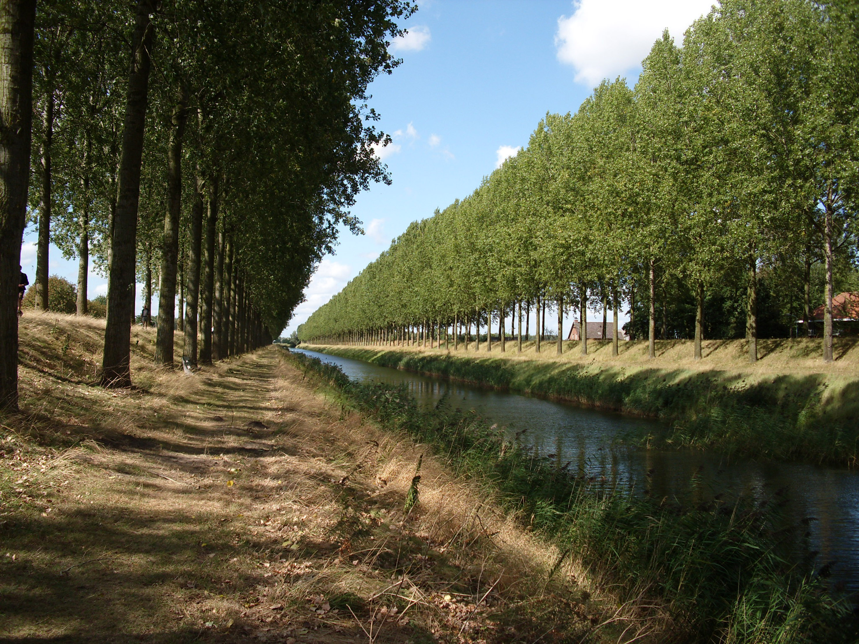 This canal runs adjacent to the northeast boundary of the town of Philippine, in southern Zeeland, The Netherlands. Can't tell where exactly the photograph was taken, but it was probably in the surrounding farmland.